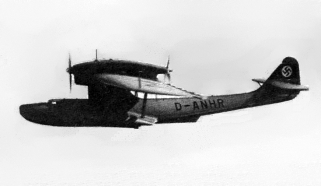 The German Dornier Do 18D D-ANHR. This aircraft a long-distance record flew from Dartmouth, Devon (UK) to Caravelas, Bahia (Brasil), flying 8.392 km in 43 hours (27-29 March 1938).